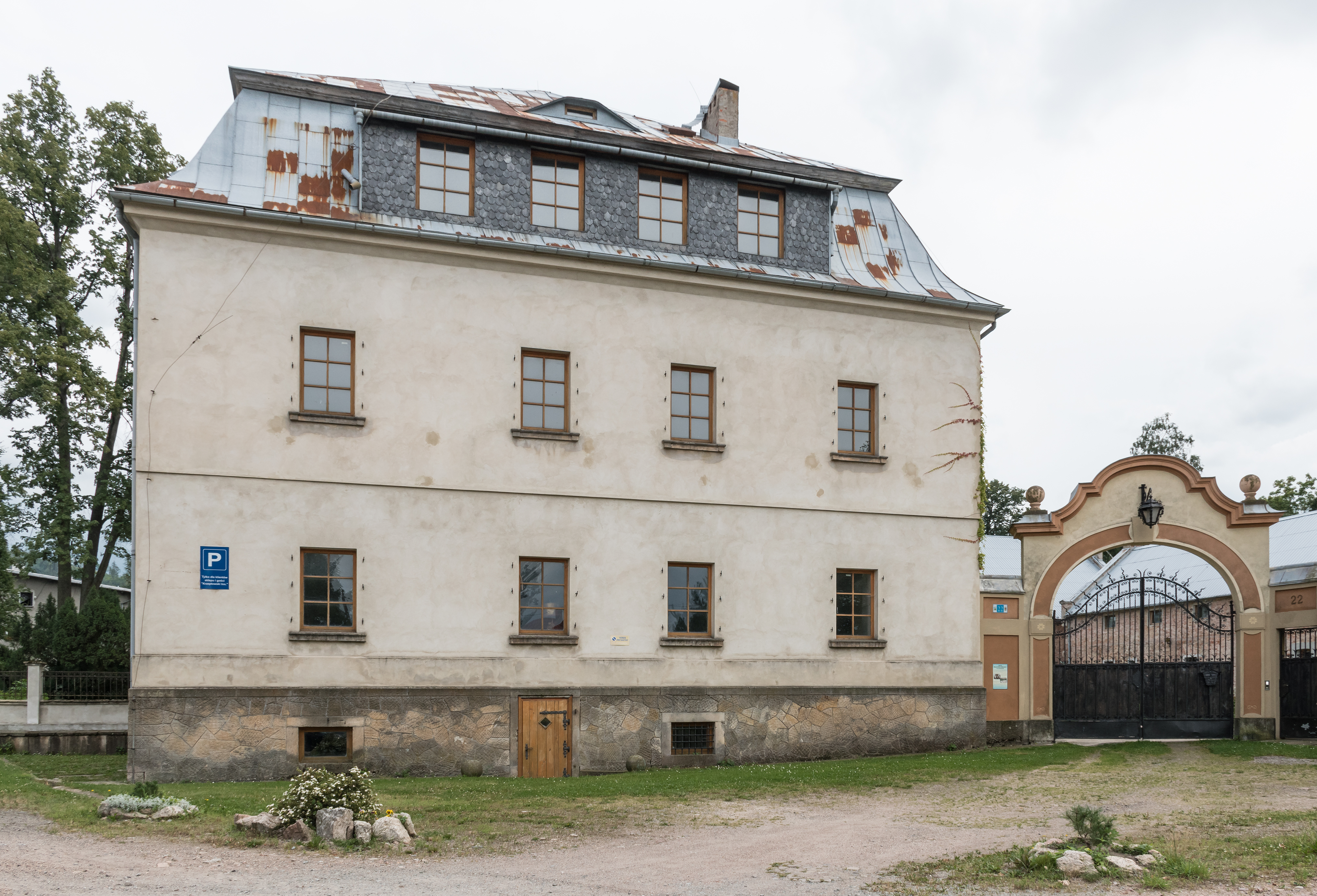 Palace in Goworów Wikidata has entry Q30048853 with data related to this item.